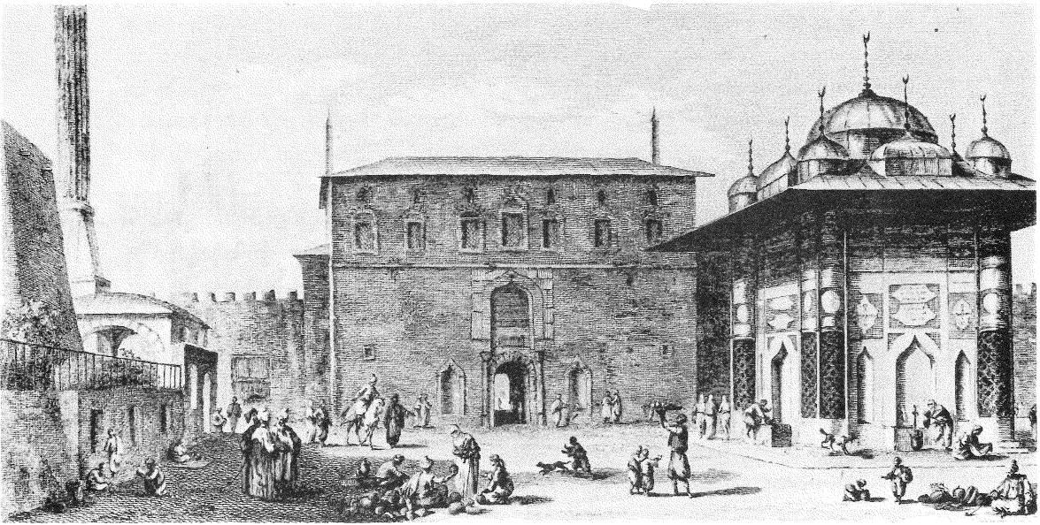 The old Imperial Gate (Bab-ı Hümayun) before it was destroyed by fire. To the right is the Fountain of Ahmet III, to the left a corner of Hagia Sophia.